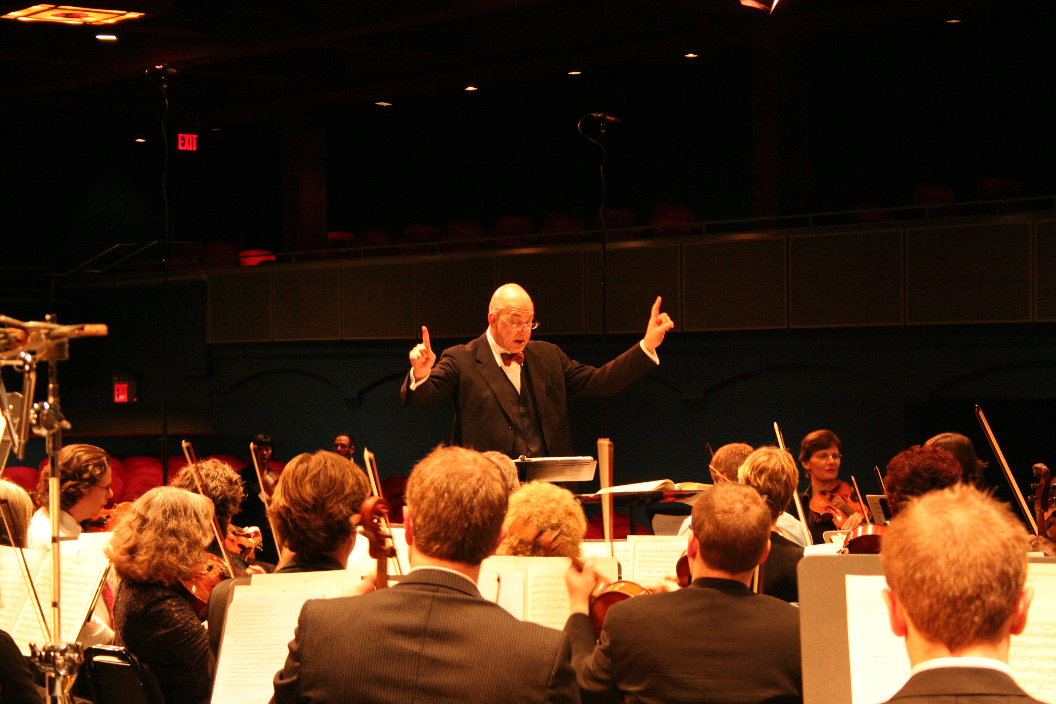 Conductor and college president Leon Botstein conducting an orchestra during a concert